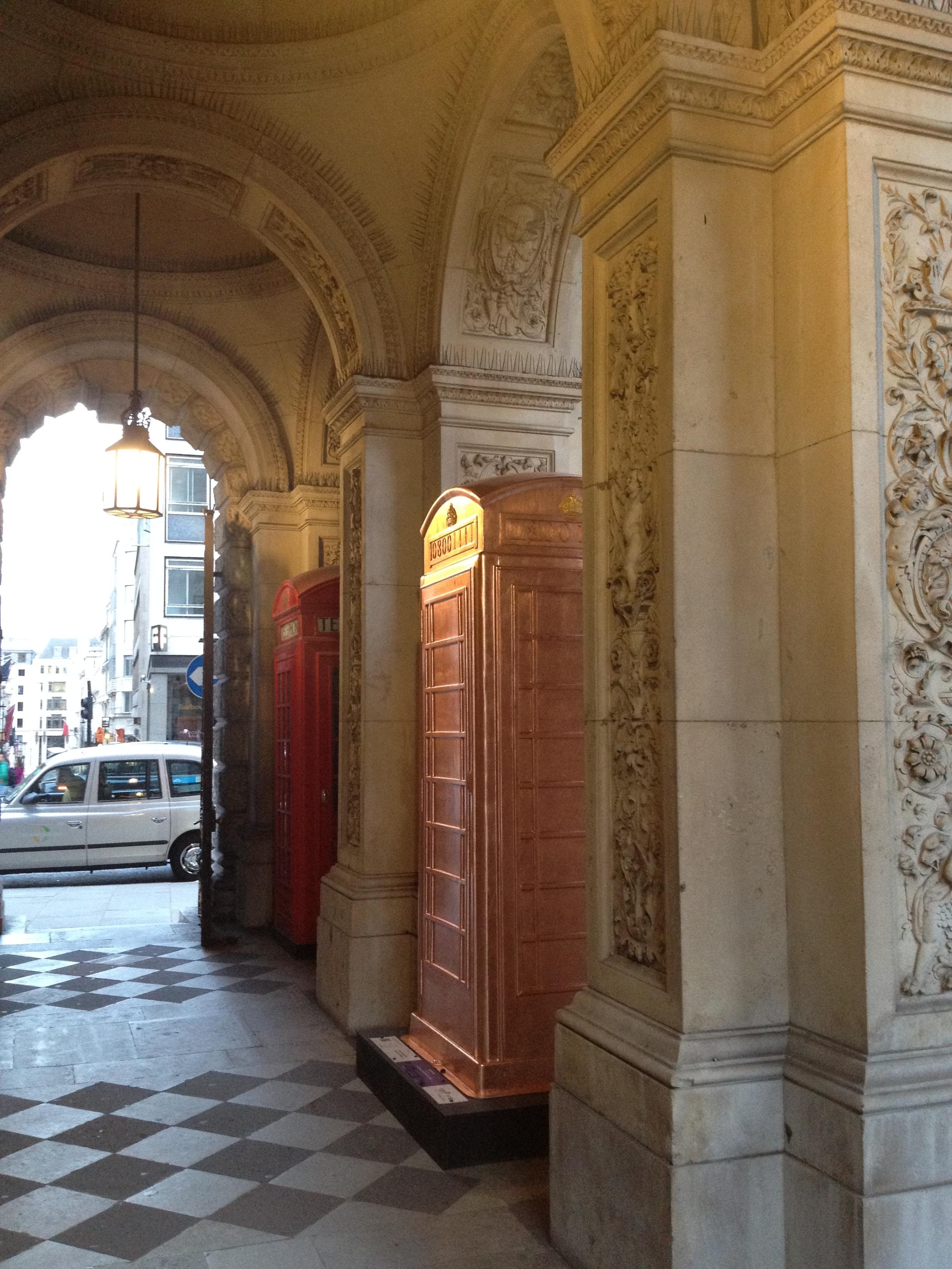 Working 1st Generation K2 Phonebox in entrance to Royal Academy of Arts with K6 BT Artbox 'Cu box' by Ian Ritchie Architects. The K6 has been gilded in copper leaf